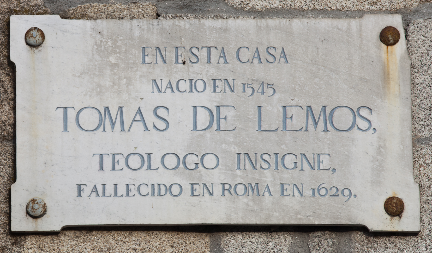 Tomás de Lemos